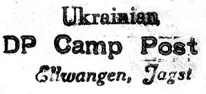 Postmark from a letter cancelled at the Ellwangen-Jagst Ukrainian Displaced Persons Camp.